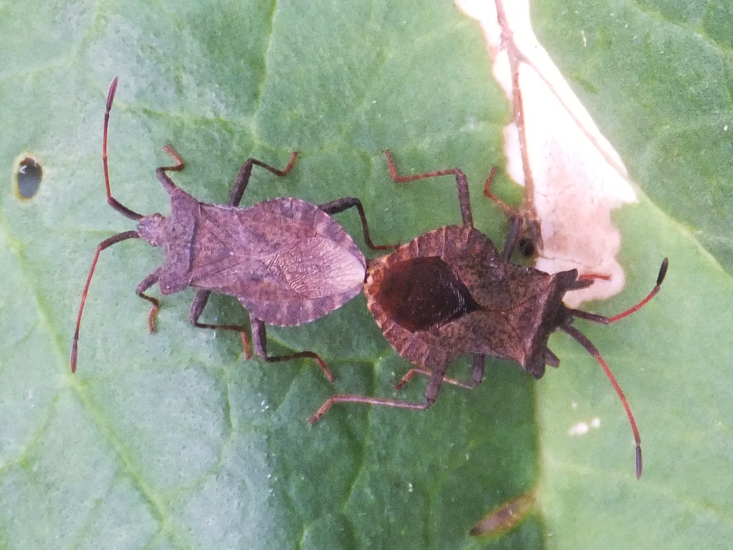 Two dock bugs (Coreus marginatus) mating (Cantilaga, Segonzano, Italy)